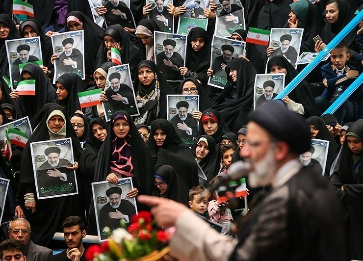 Ebrahim Raisi rally at Qazvin for 2017 presidential campaign